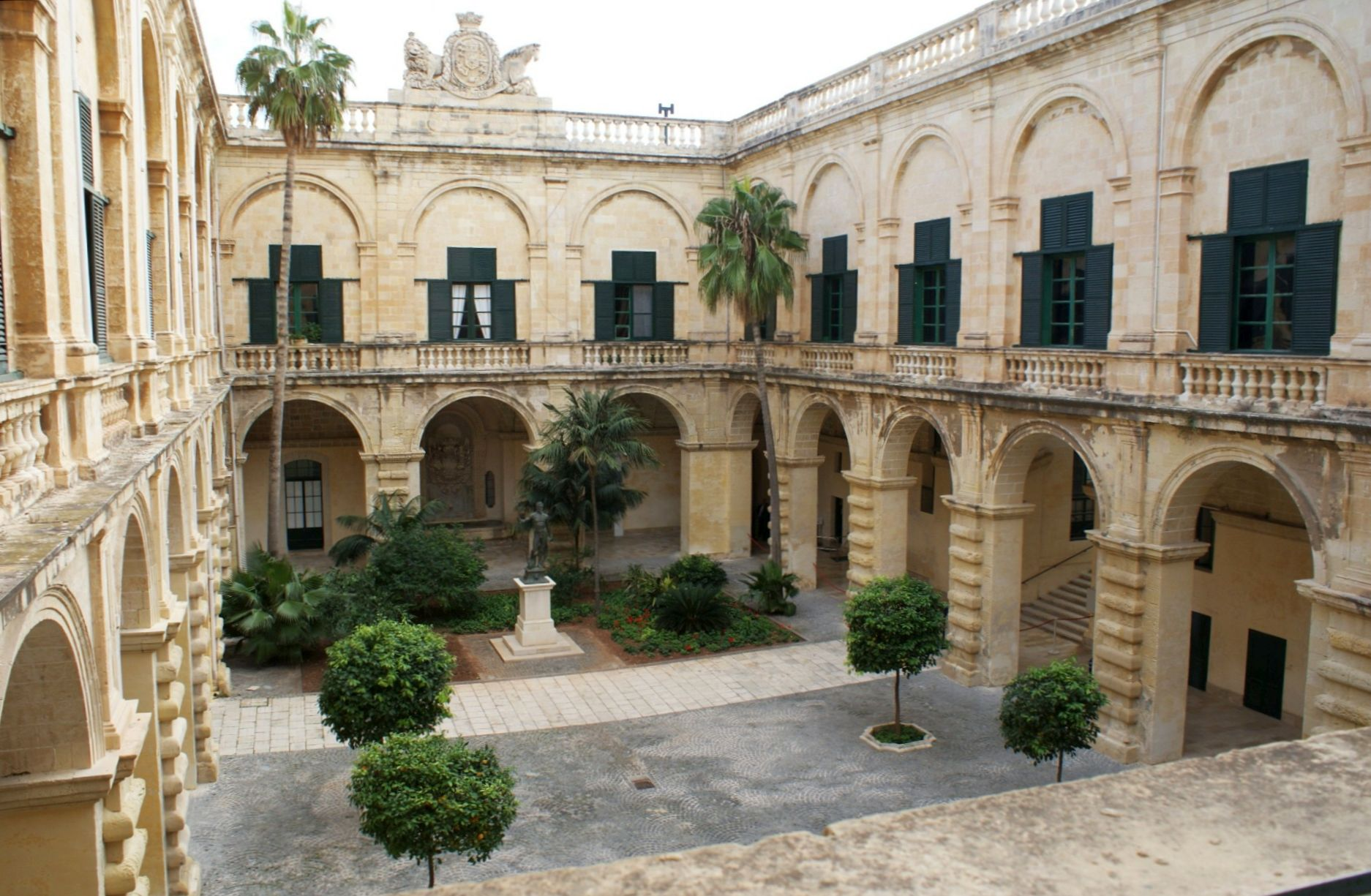 Valletta, Grandmaster's Palace, Courtyard